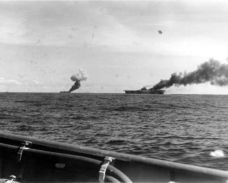 USS Franklin (CV-13), at right, and USS Belleau Wood (CVL-24) afire after being hit by Japanese "Kamikaze" suicide planes, while operating off the Philippines on 30 October 1944. Photographed from USS Brush (DD-745. Note "flak" bursts over the ships.